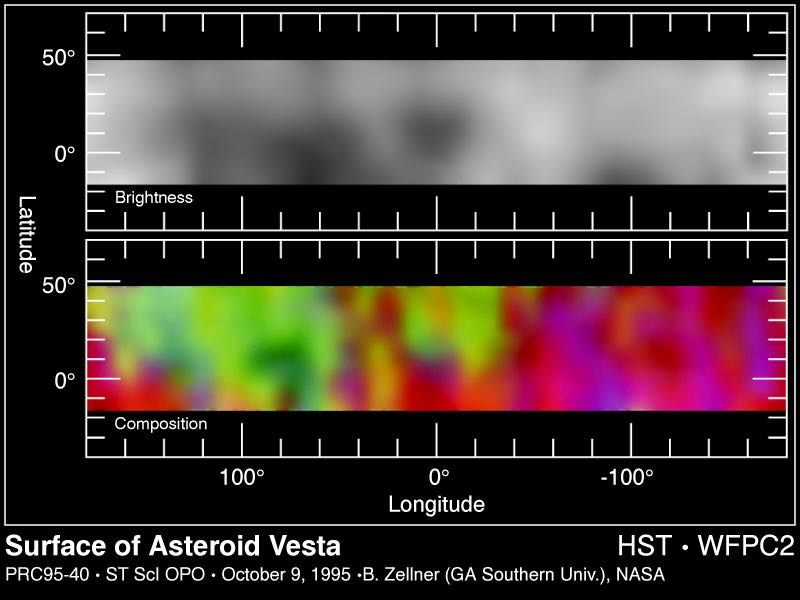 These two surface maps of the asteroid Vesta are derived from Hubble telescope images taken between November 28 and December 1, 1994. The pictures show surface details as small as 55 kilometers across. The top panel indicates sharp contrasts in Vesta's surface color. The surface markings may represent ancient volcanic activity such as lava flows and, in addition, regions where major collisions have stripped away the surface. The bottom panel reveals that Vesta's surface is made up of igneous rock, indicating that either the entire surface was once melted or lava flowing from its interior once completely covered its surface.